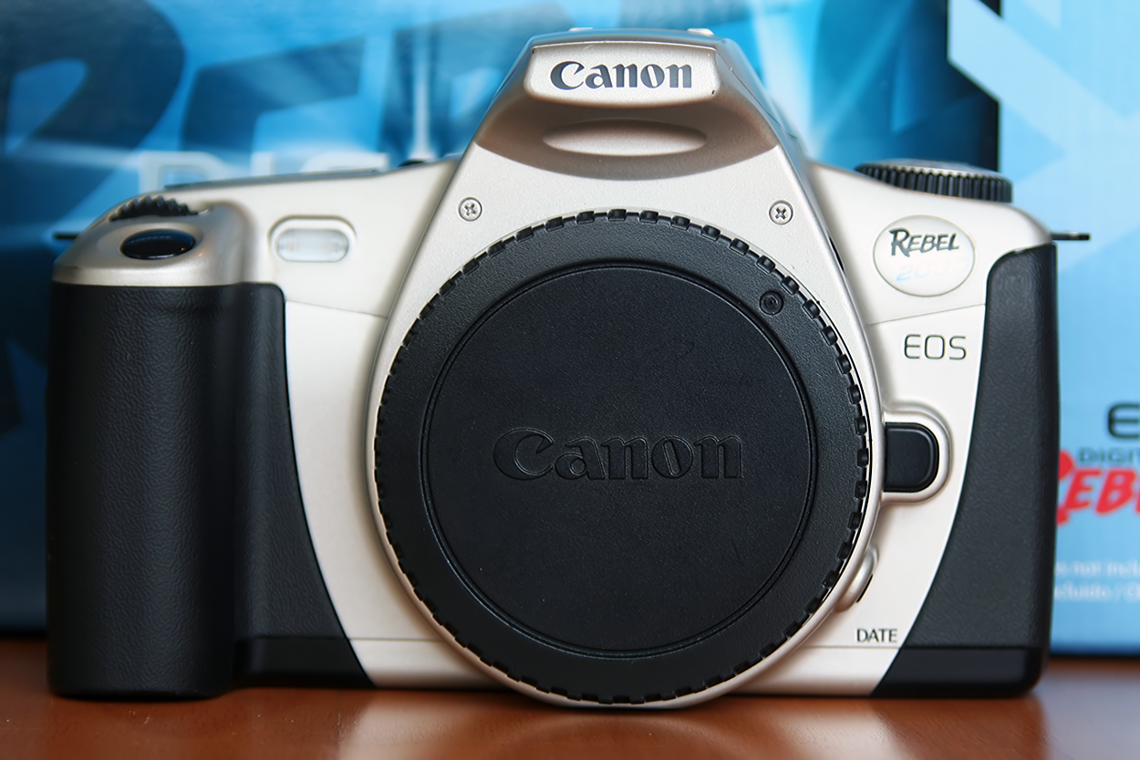 A Canon EOS Rebel 2000 in front of a Canon EOS Digital Rebel XT box.